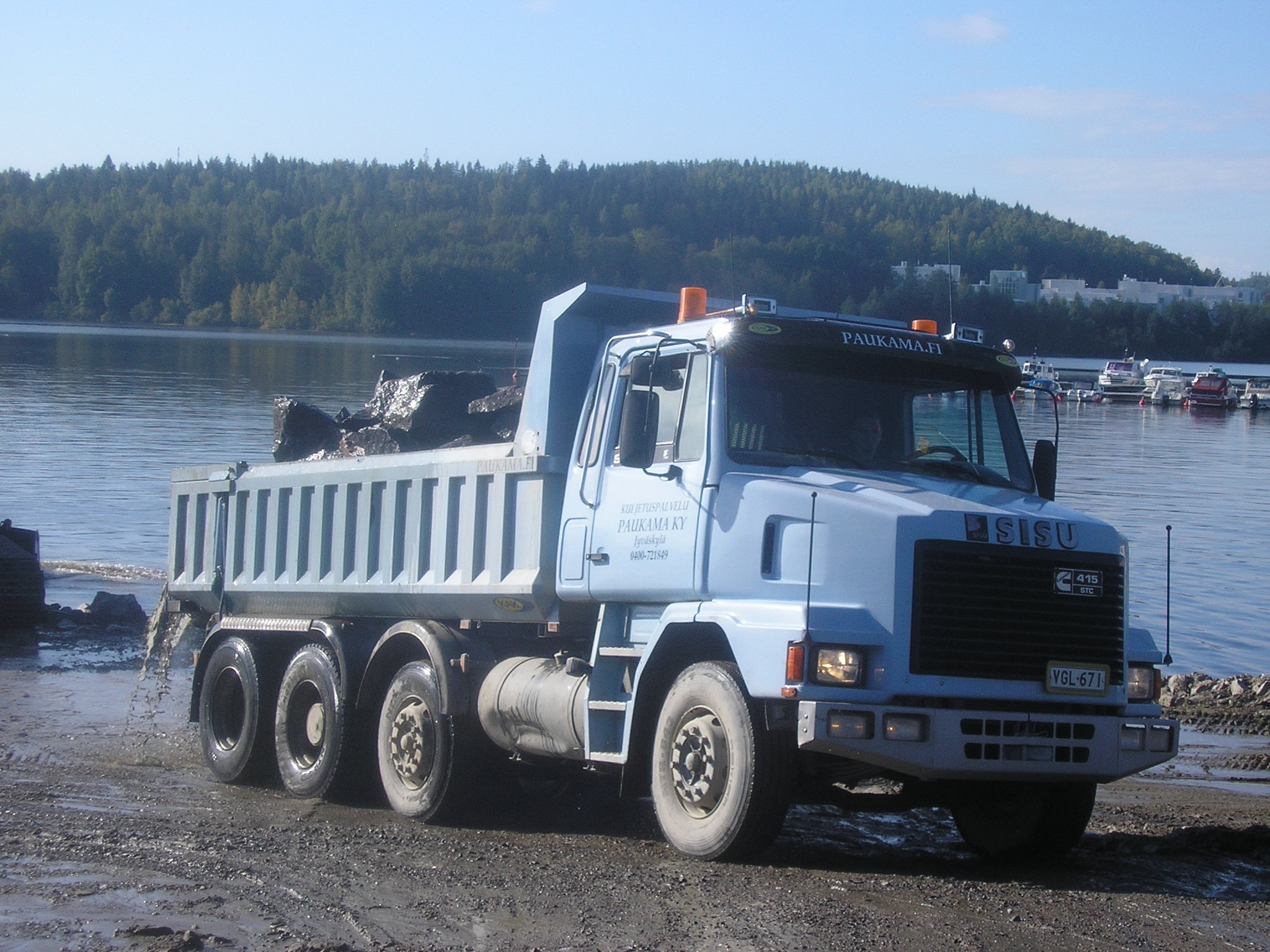 Sisu dump truck in Jyväskylä, Finland